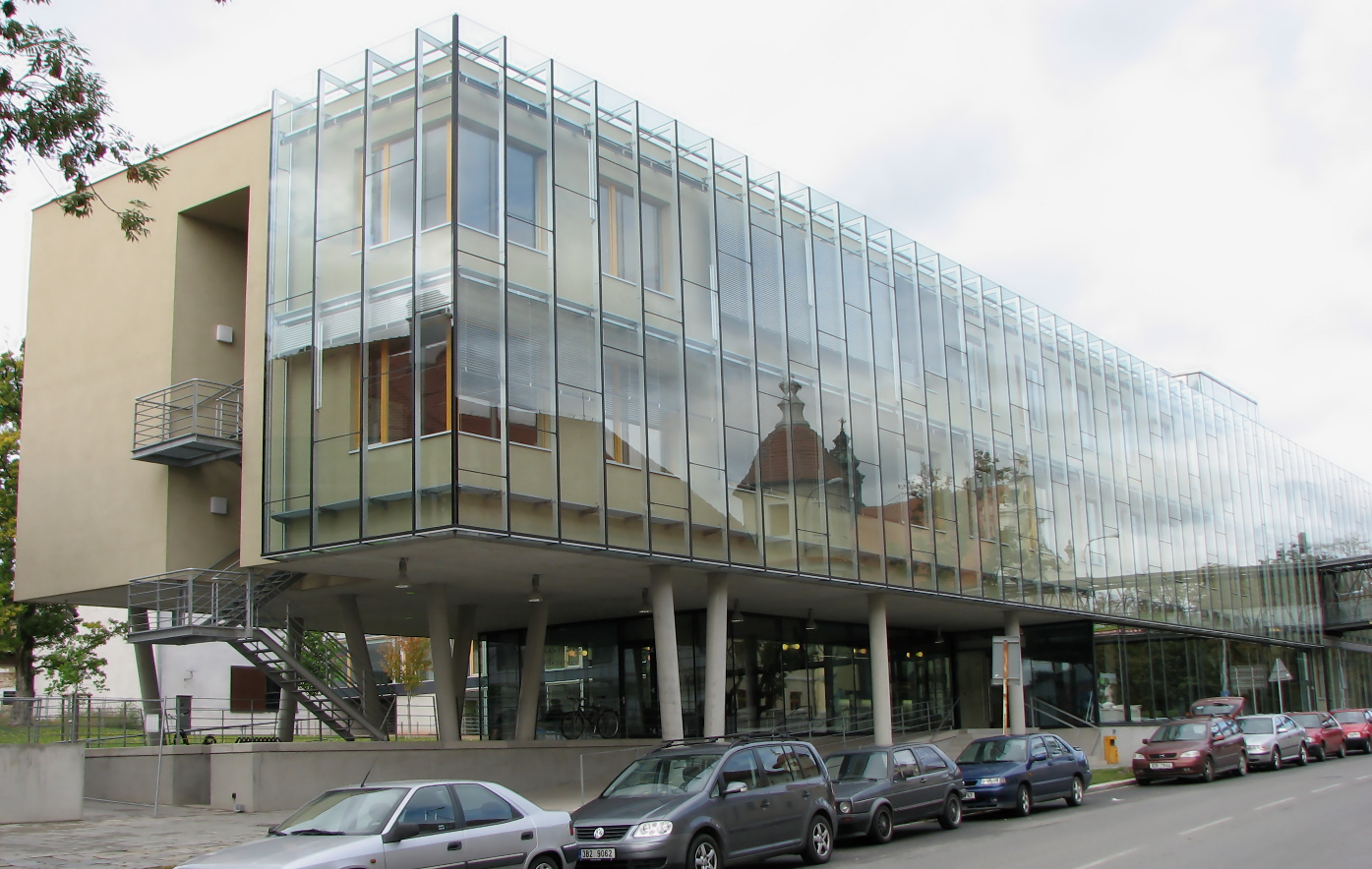 Brno University of Technology, Faculty of Information Technology